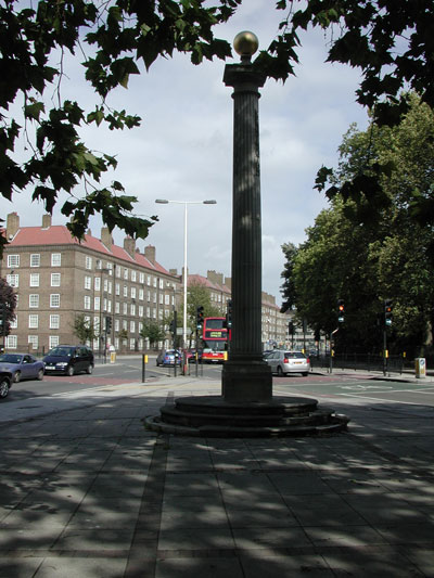 Fork in Kennington Park Road looking north towards London Bridge Precise information about this column with its golden ball would be appreciated... The steps which form its base were mended in spring 2006